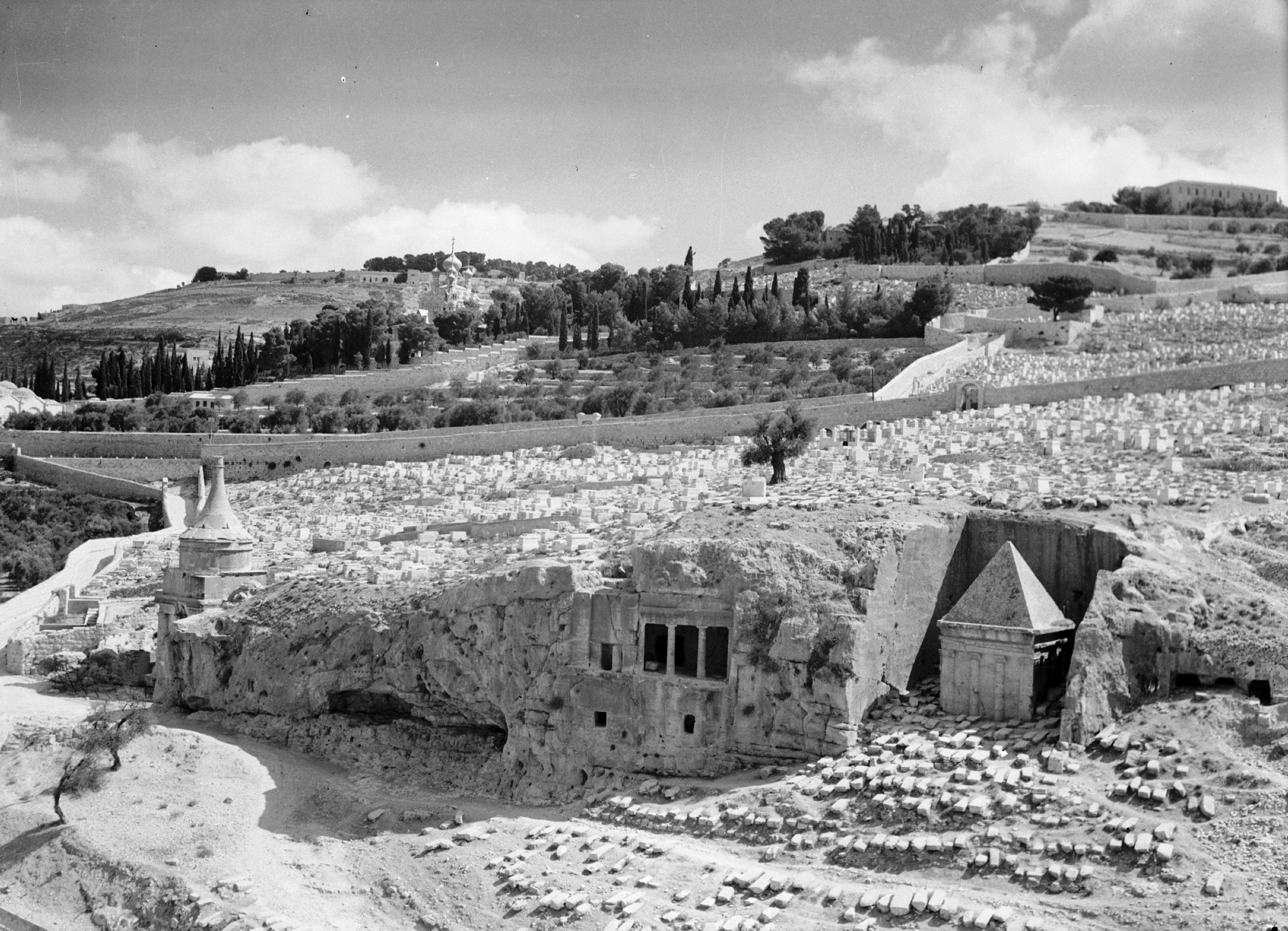 Tombs of Zachariah, St. James, & Absalom's Pillar